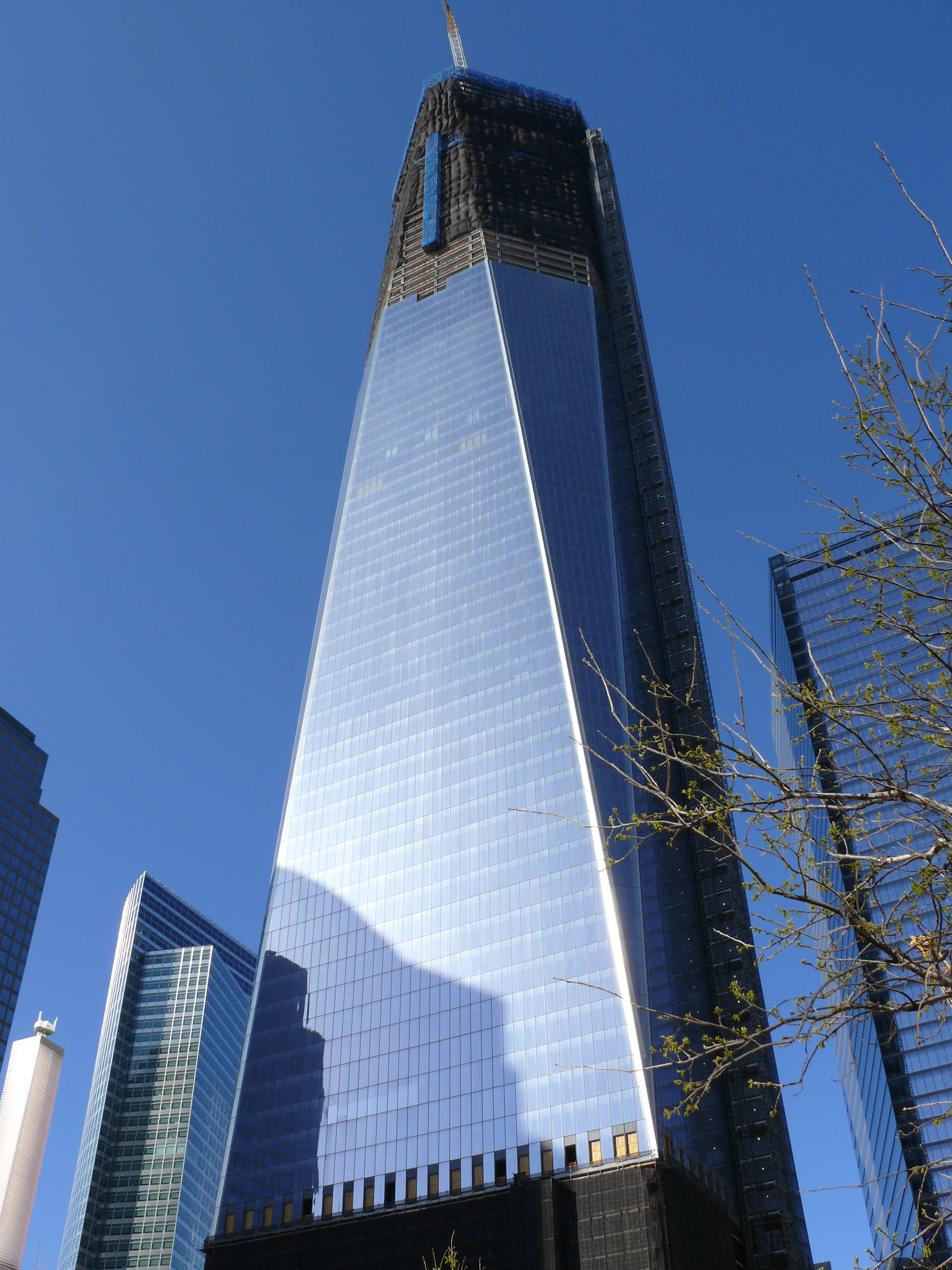 One World Trade Center